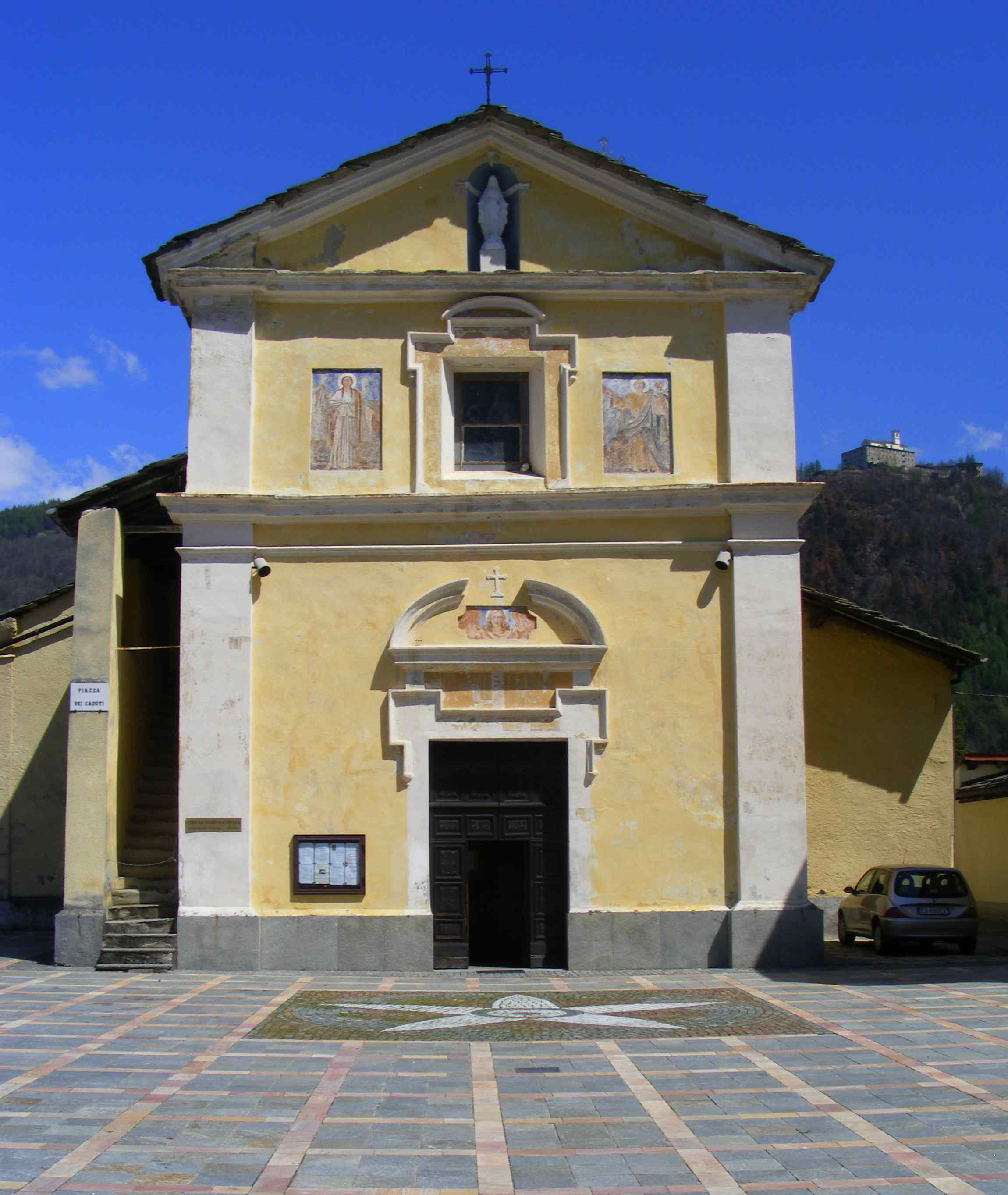 Traves (TO, Italy): San Pietro in Vincoli parish church and (in the background) Saint Ignazio's sanctuary